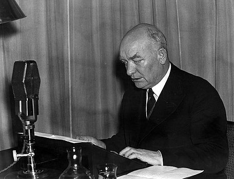 Swedish Prime Minister (1932-36; 1936–46) Per Albin Hansson.